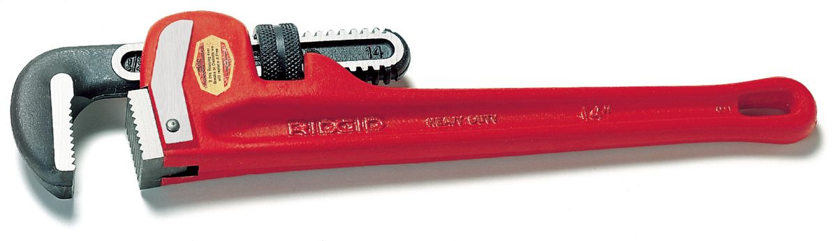 RIDGID is perhaps most famous for its pipe wrenches, which are world-renowned for their toughness and serviceability.